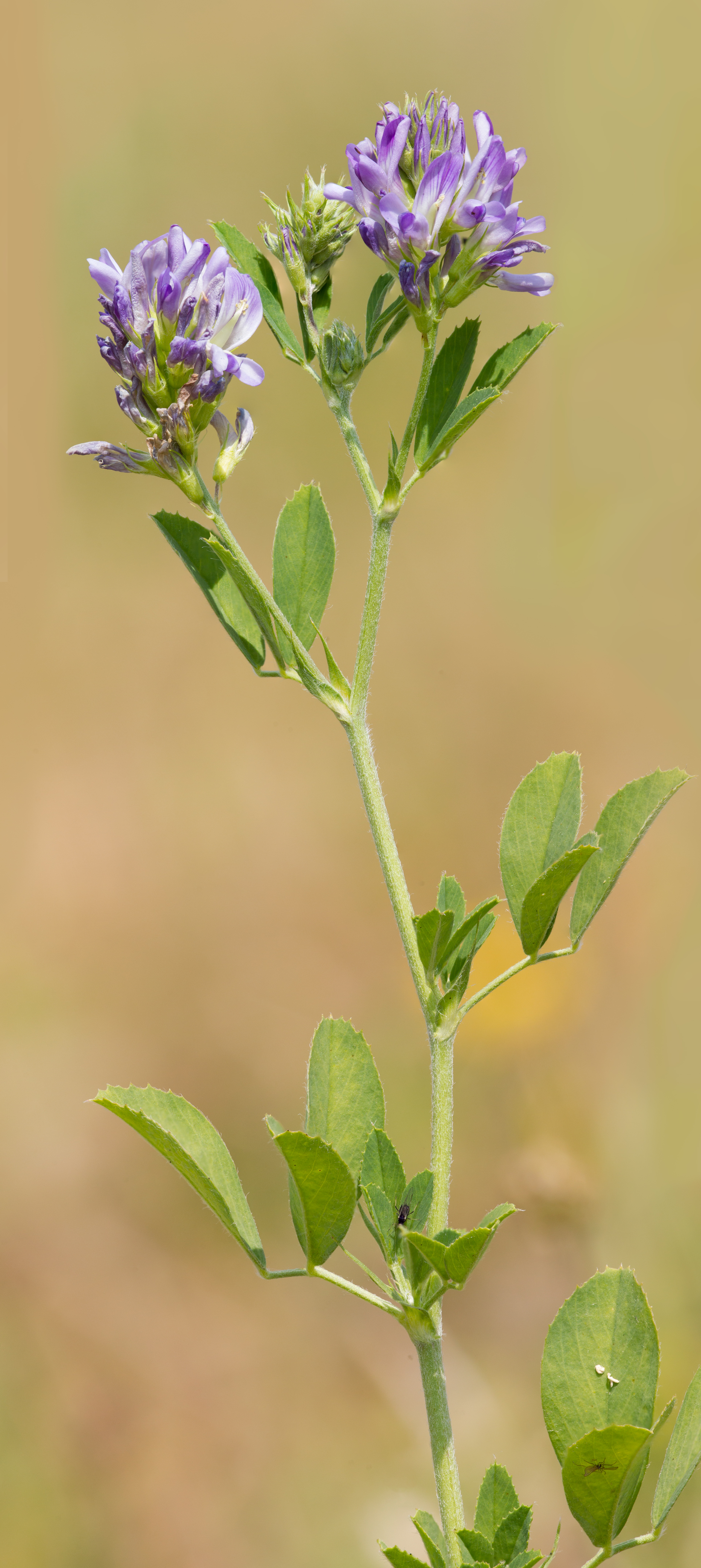 Alfalfa